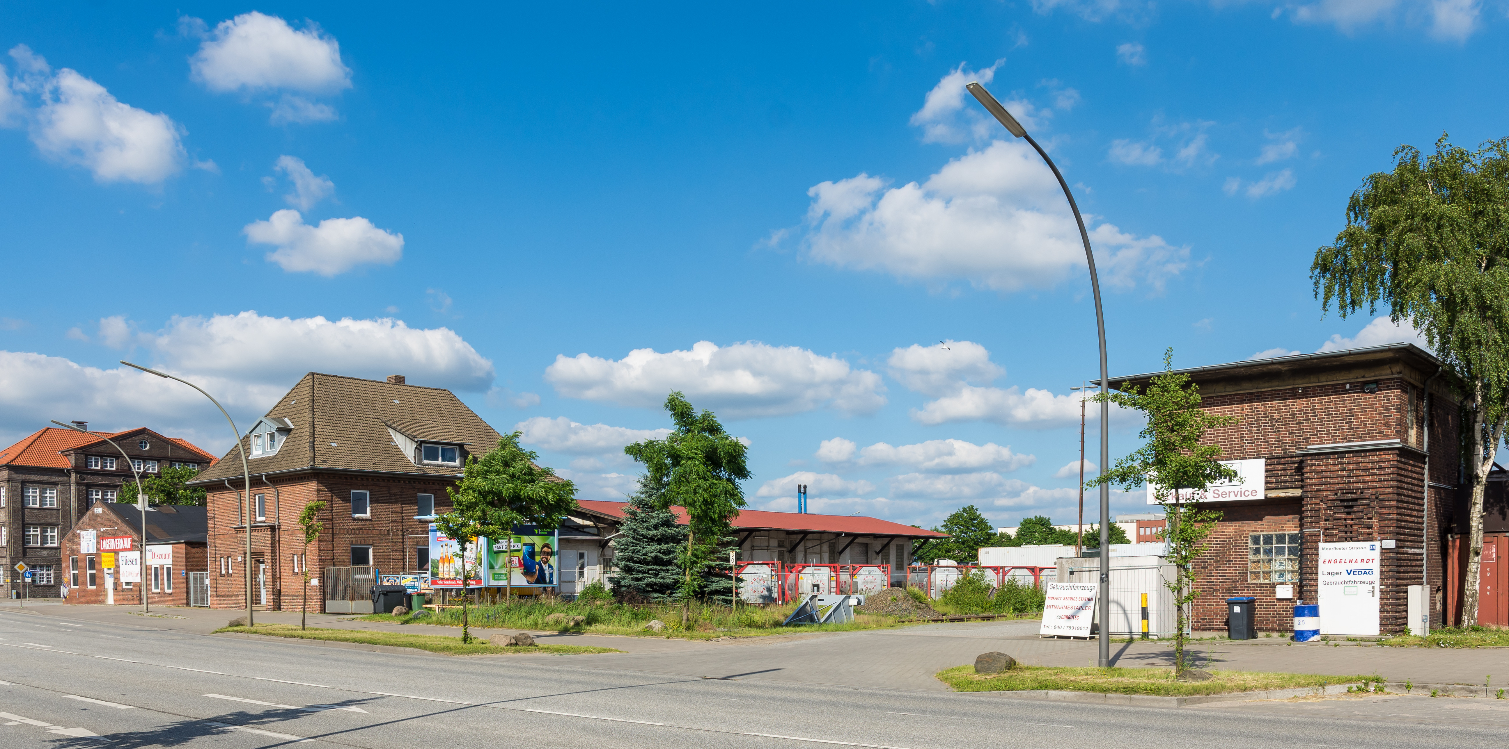 Streetside view of the former buildings of the Billbrook goods station in Hamburg-Billbrook.